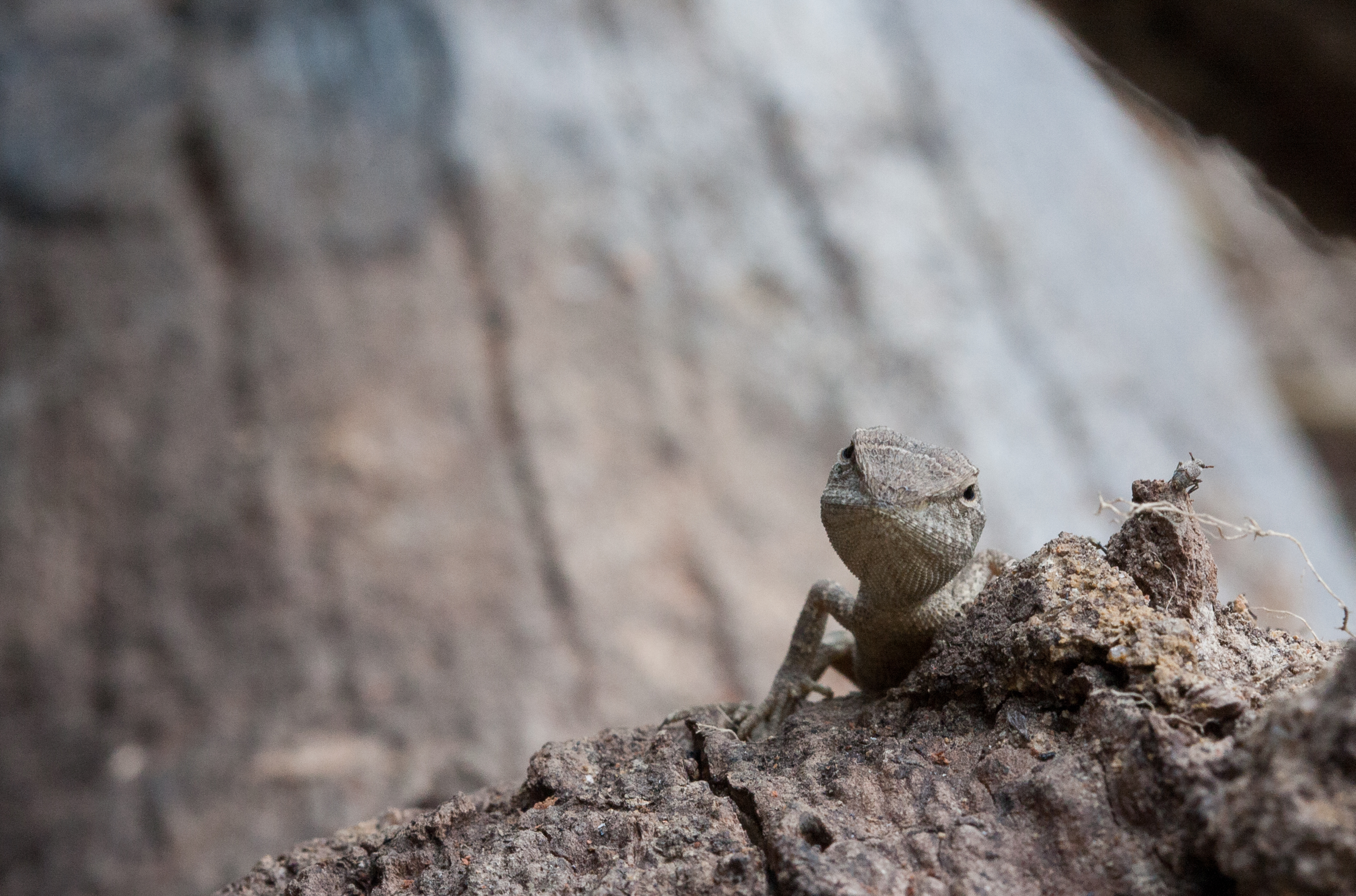 Diporiphora australis looking over the edg eof a small rock - Emu Creek, Qld 2014.jpg